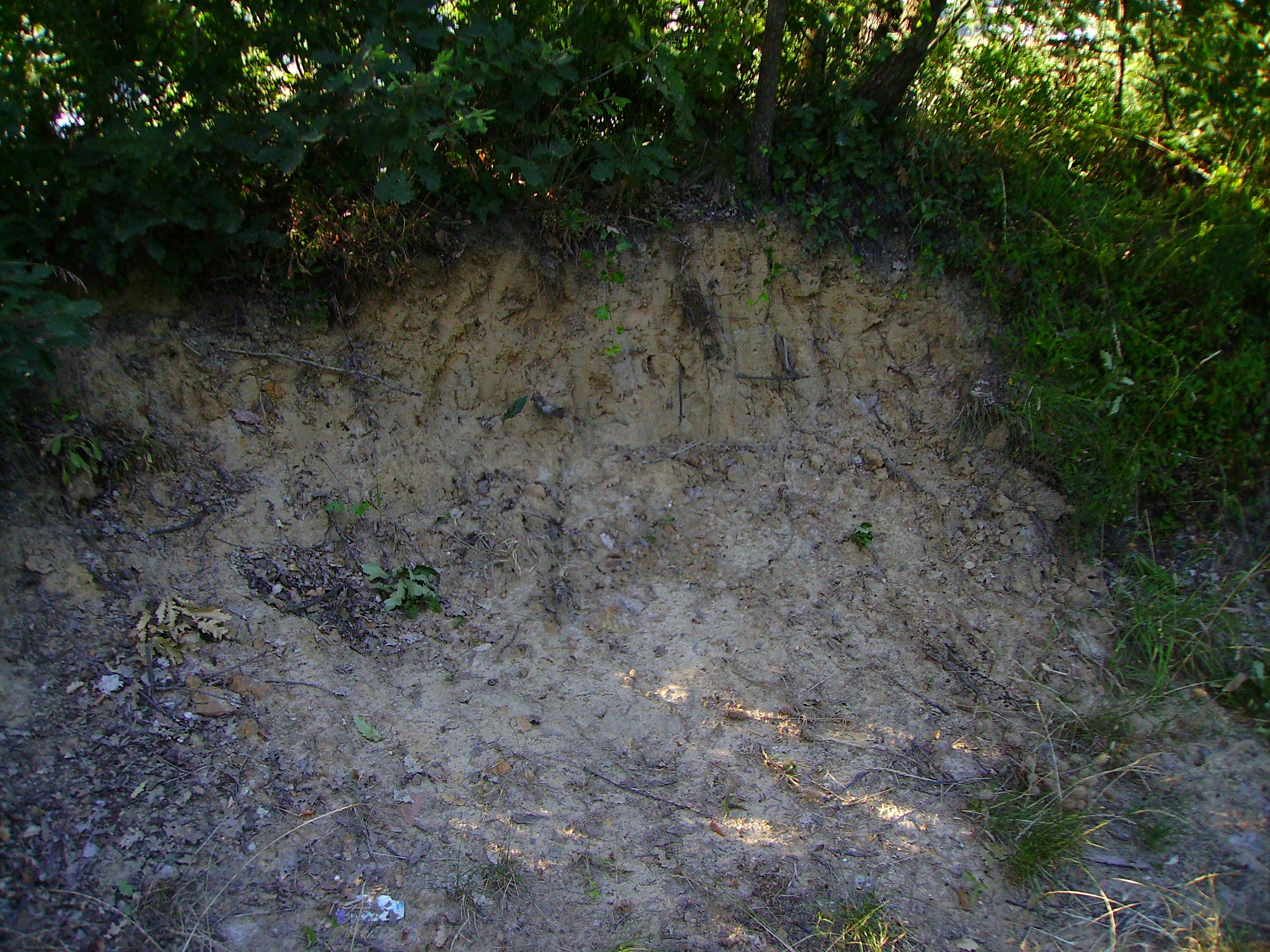 The fragile sandstone soil of Cappuccini Hill that, on XIII century, caused the abandonment of the castle